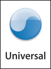 This image only consists of simple geometric shapes or text. It does not meet the threshold of originality needed for copyright protection, and is therefore in the public domain. Although it is free of copyright restrictions, this image may still be subject to other restrictions. See WP:PD#Fonts and typefaces or Template talk:PD-textlogo for more information. This work includes material that may be protected as a trademark in some jurisdictions. If you want to use it, you have to ensure that you have the legal right to do so and that you do not infringe any trademark rights. See our general disclaimer. This tag does not indicate the copyright status of the attached work. A normal copyright tag is still required. See Commons:Licensing for more information.